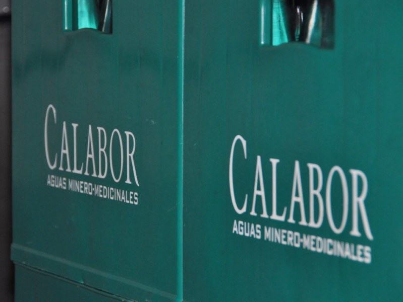 Aguas de Calabor